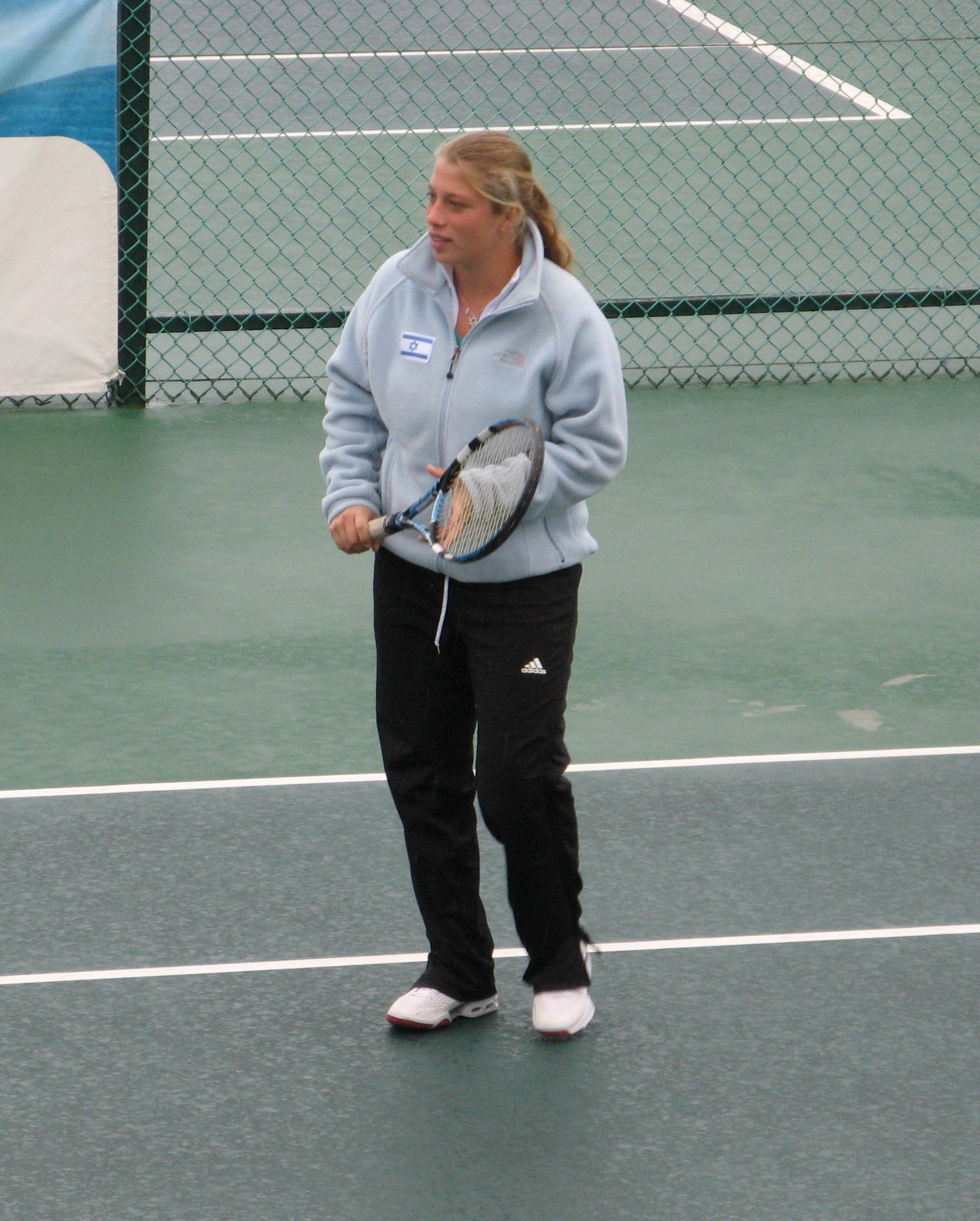 Israeli tennis player Keren Shlomo at the Israel tennis championship 2008